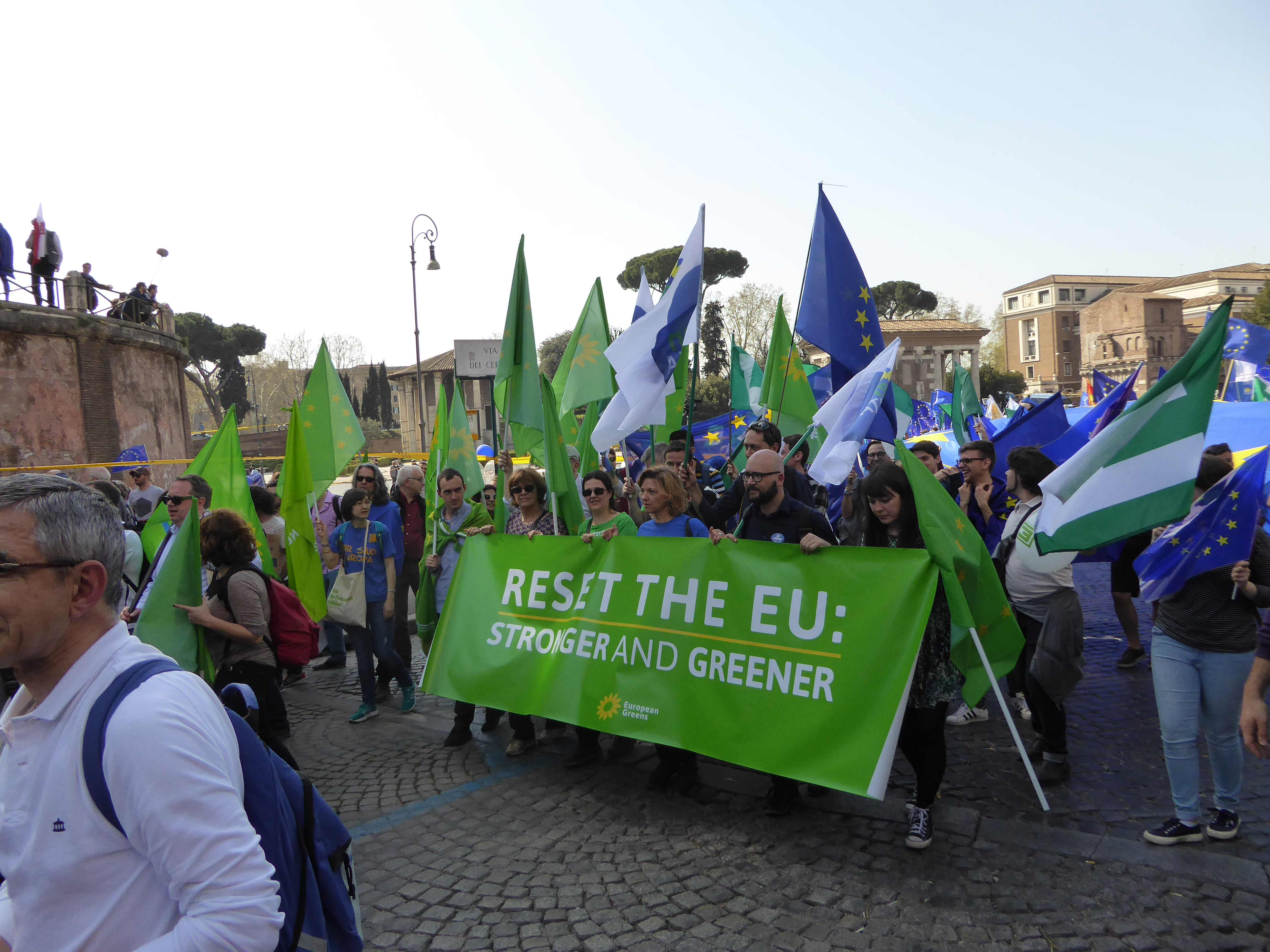 Rome, Bocca della verità, march.